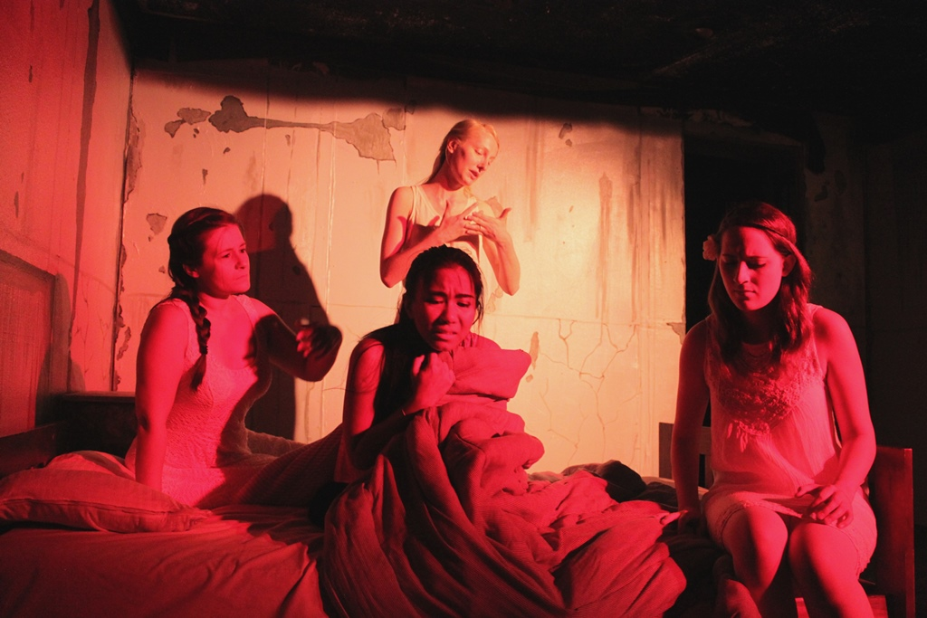 The voices surround Number 18 in a 2014 California production of the Canadian play She Has a Name